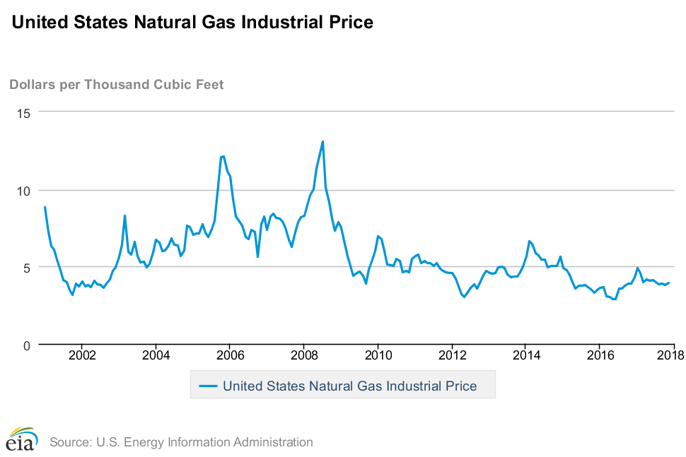 Evolution of the natural gas price in the US